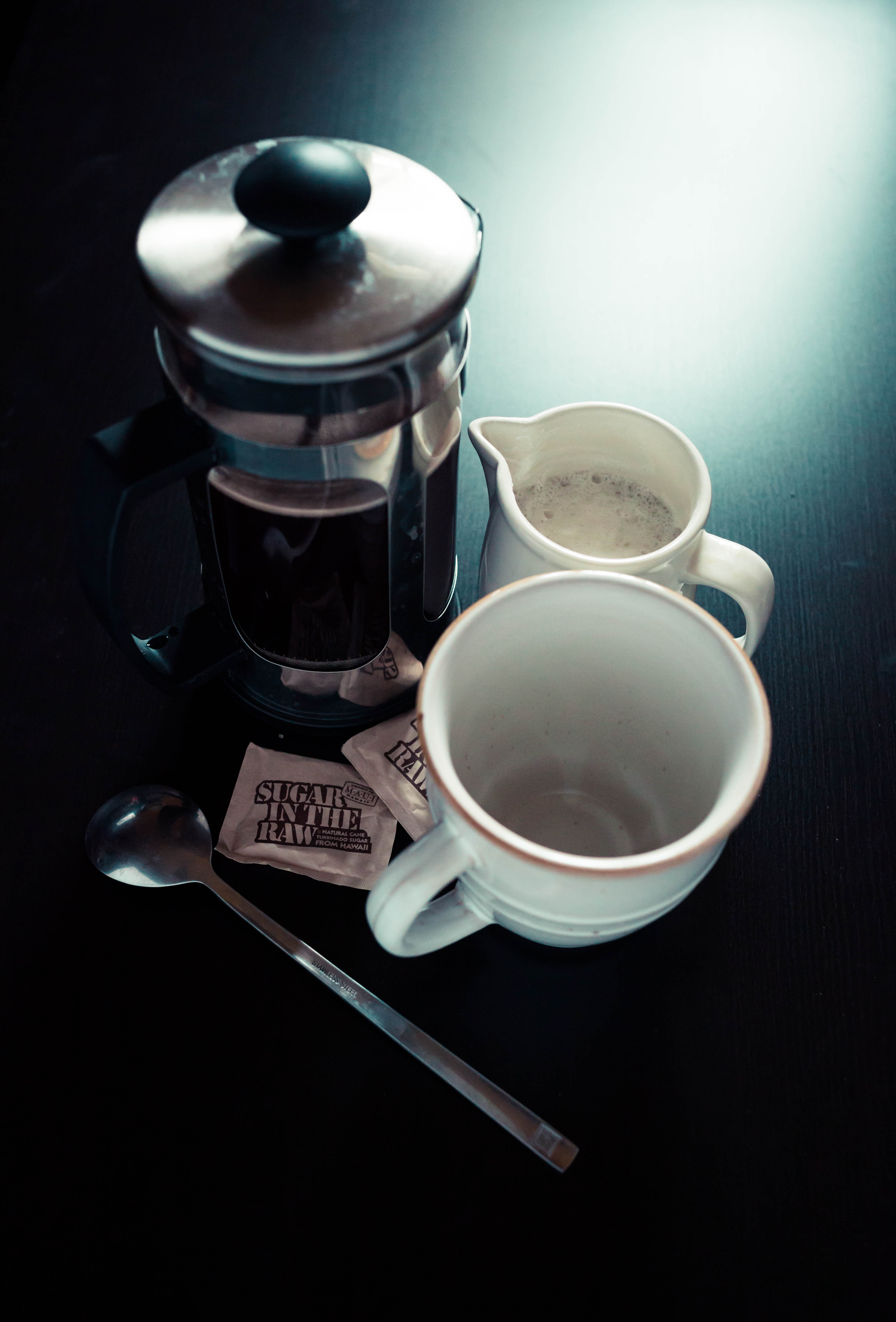 I need to invest in a Chemex and an AeroPress